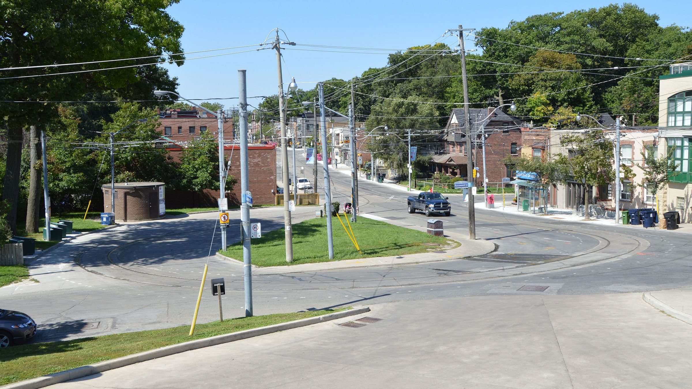 Neville Park Loop